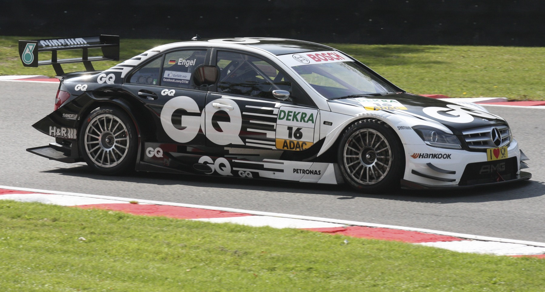 DTM Brands Hatch Sept 2011